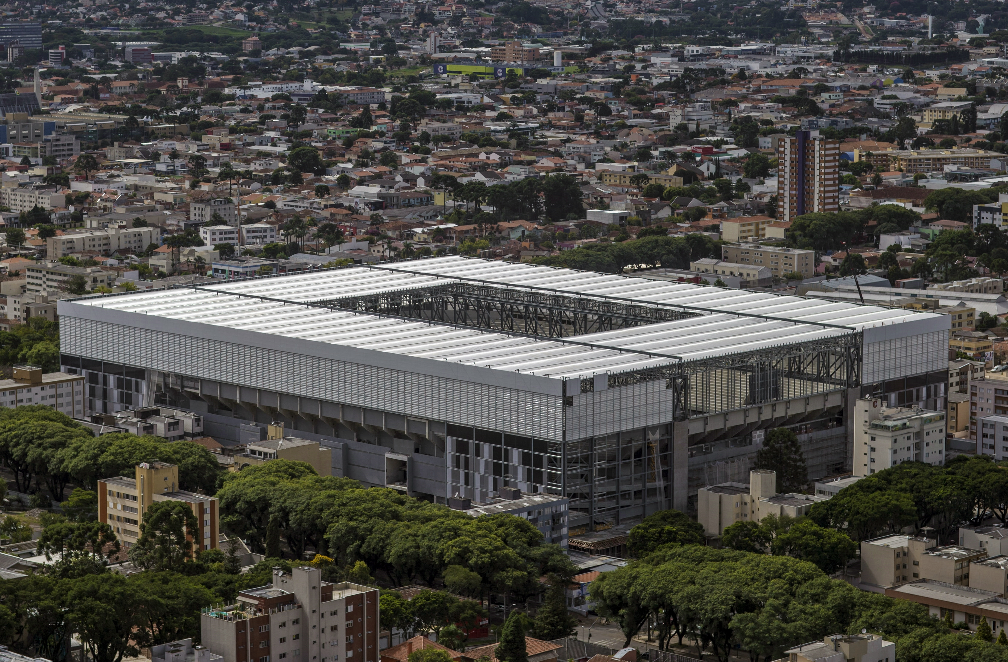 Arena da Baixada on March 2014.